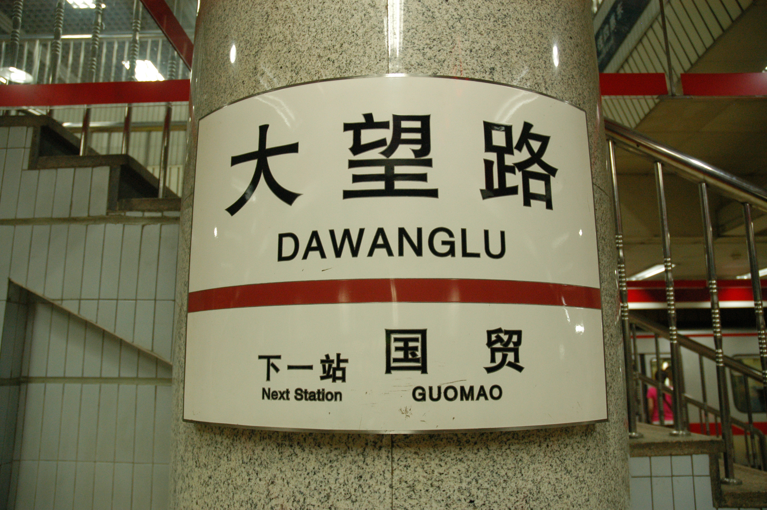 Beijing subway system Dawanglu station sign. Beijing, China